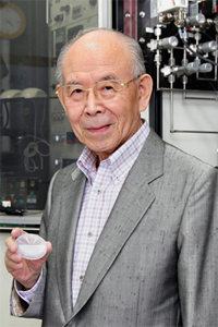 Isamu Akasaki, Director of the Research Center for Nitride Semiconductor Core Technologies, Meijo University, was given Nobel Prize in Physics on 2014.